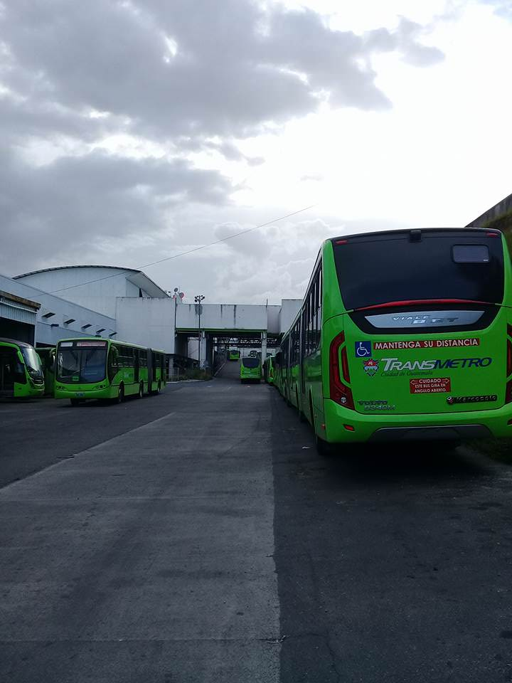 BRT terminal in zone 12 of Villa Nueva